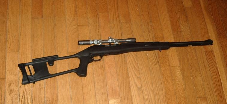 I created this image and release it to the public domain. Pictured is a Marlin Model 60 with an 18 round magazine and the more modern last-shot open receiver, as well as an after-market stock.